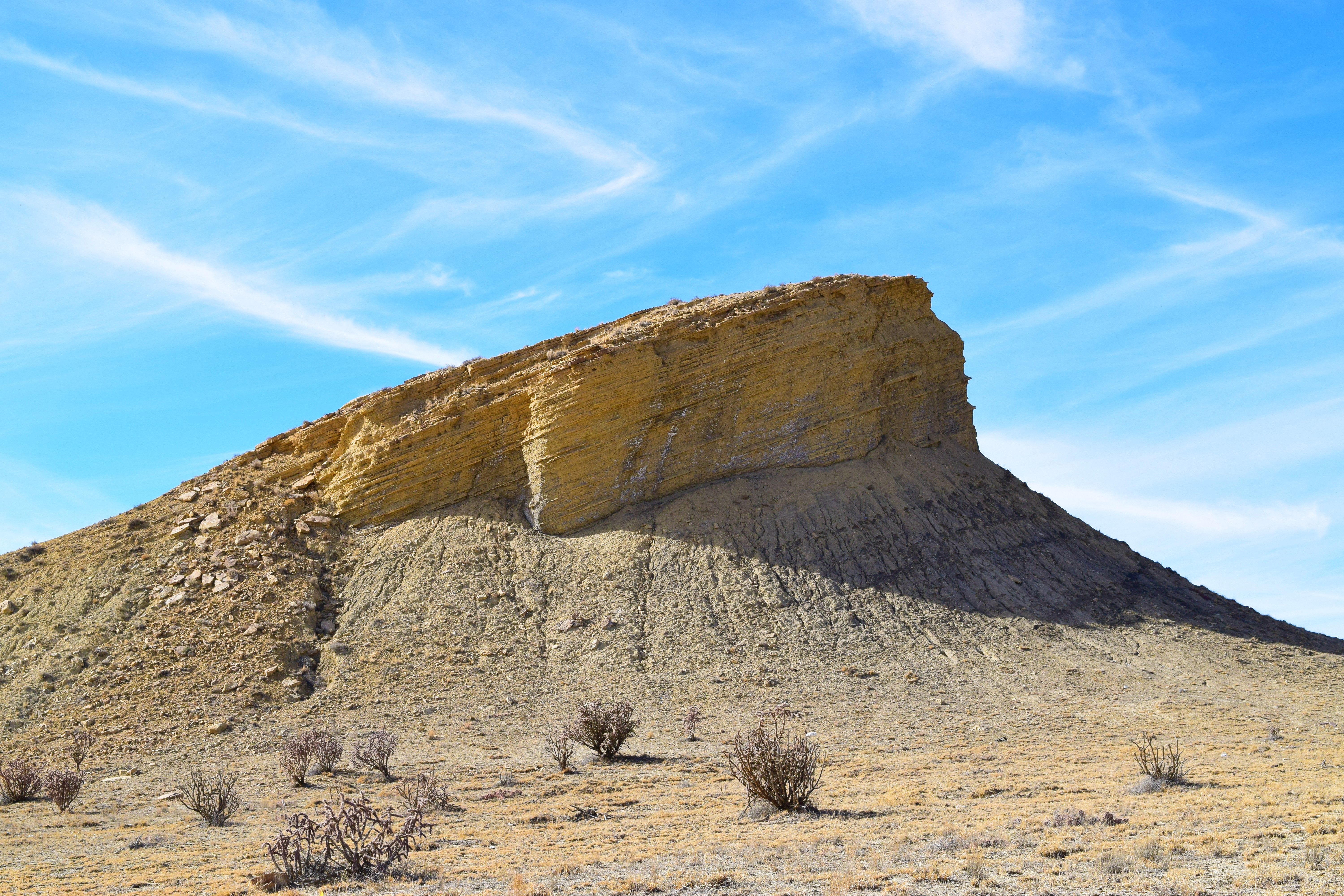 View of an uplift in Ojito Wildreness, Sandoval County, New Mexico